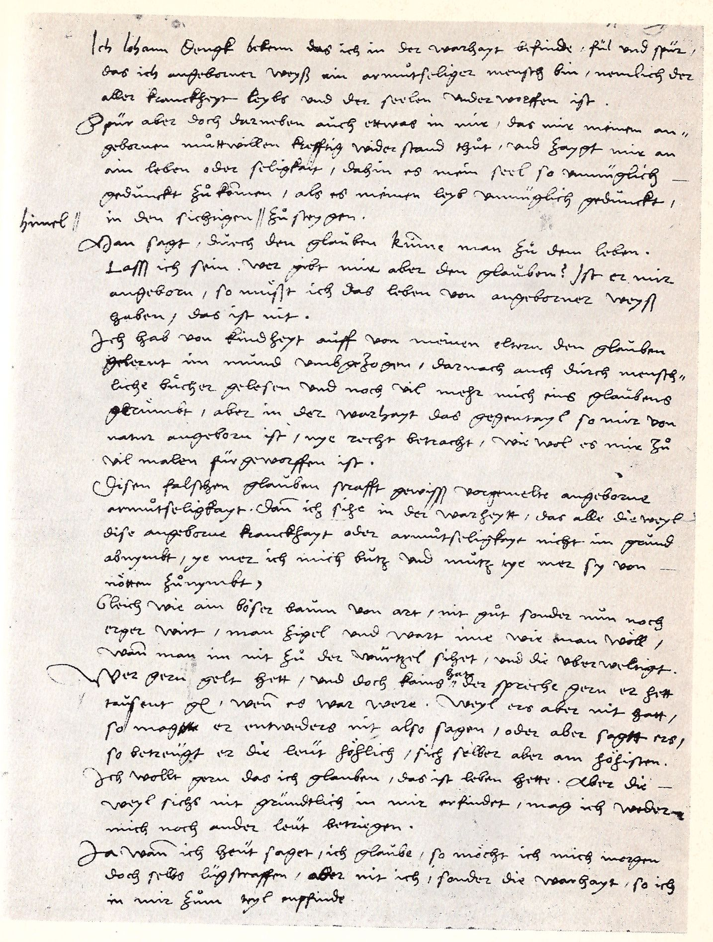 The first page of the author's confession („Bekenntnis“). Staatsarchiv Nürnberg, S I, L 78, Nr. 14.